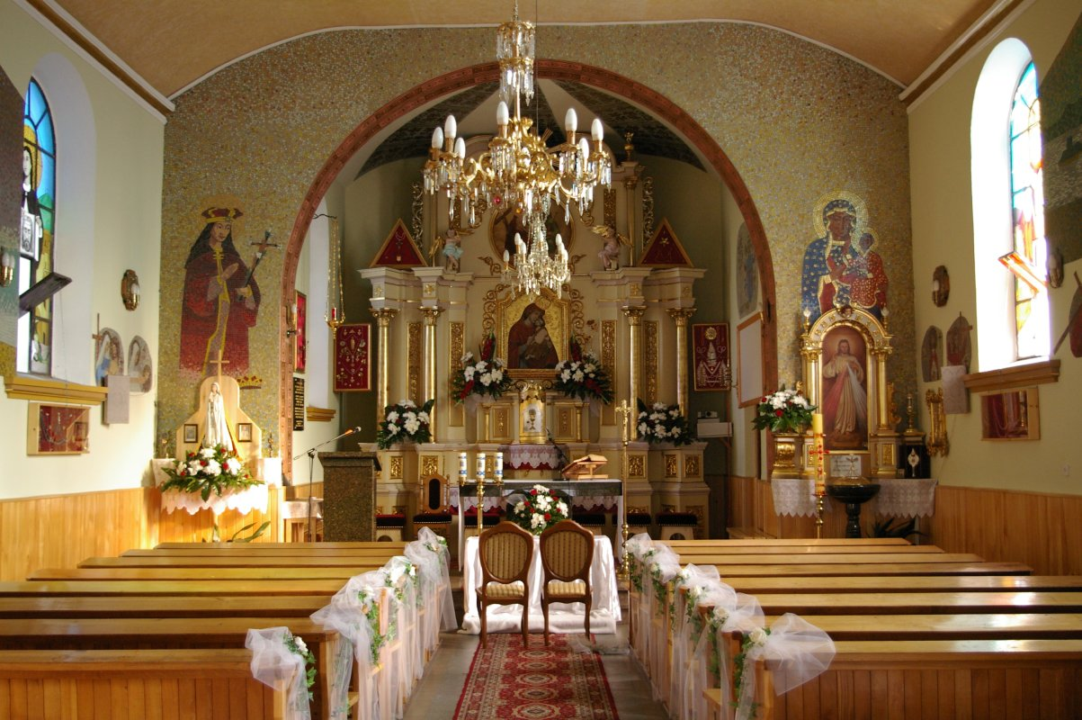 Church in Polańczyk, Poland